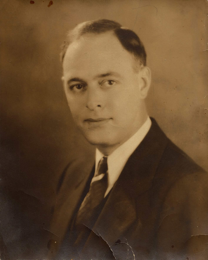 Lester Ott, vice president of Grant Company Conscientious objector during WWI. Father of Lyn Ott. Vice president of W. T. Grant.